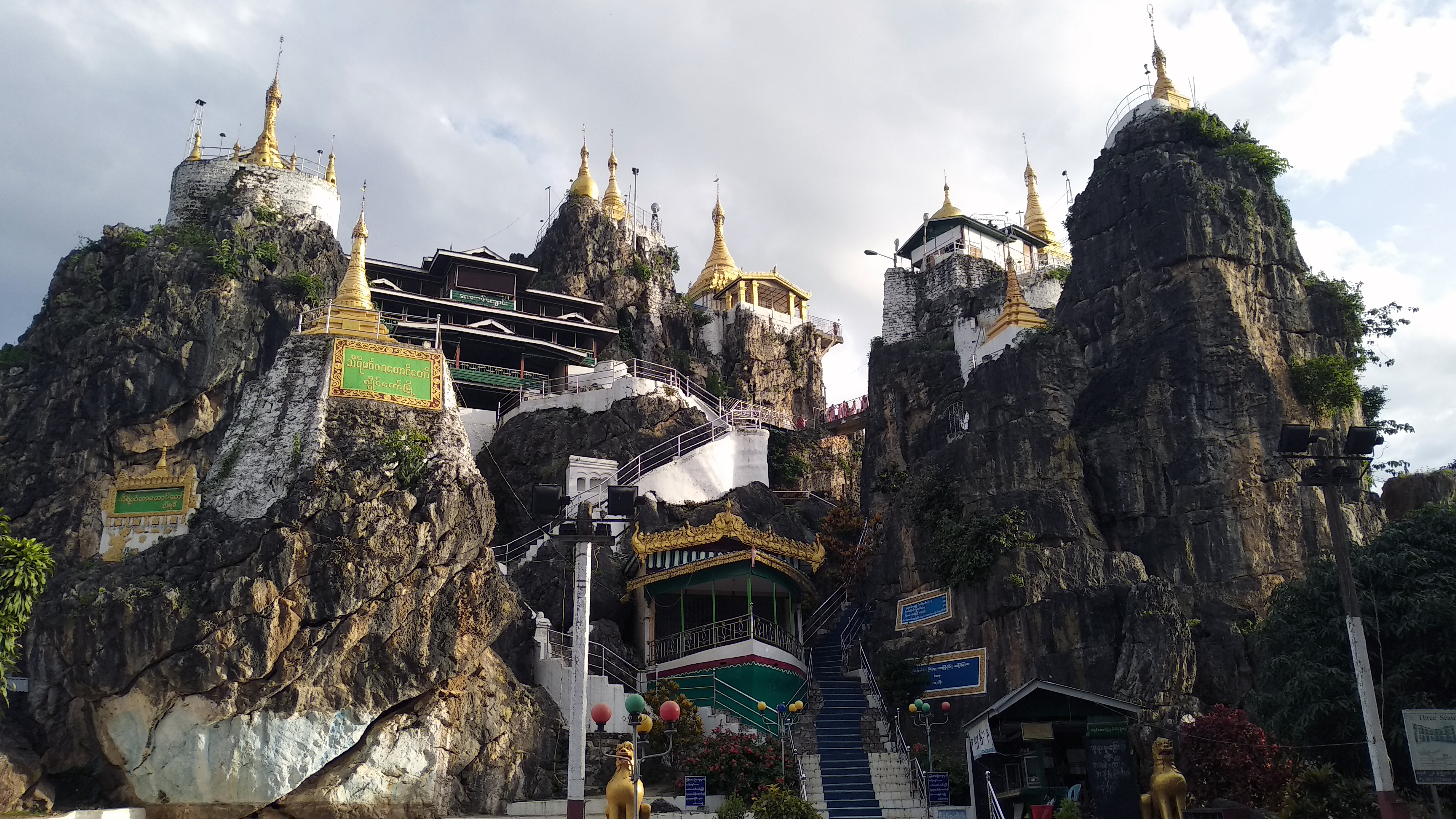 Thiri Mingalar Taung Kwe Pagoda, Loikaw, Myanmar